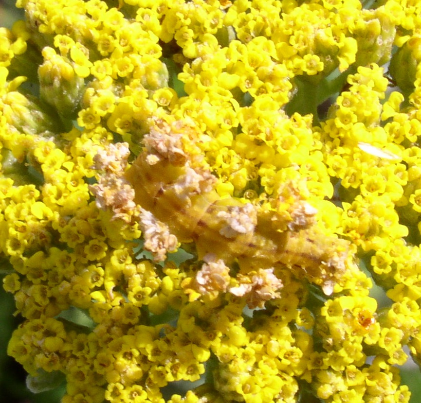 Caterpillar of emerald moth, Synchlora aerata (Wavy-lined Emerald - Hodges#7058), covered with plant fragments as camouflage. Peace Valley Nature Center, Bucks County, Pennsylvania, USA.